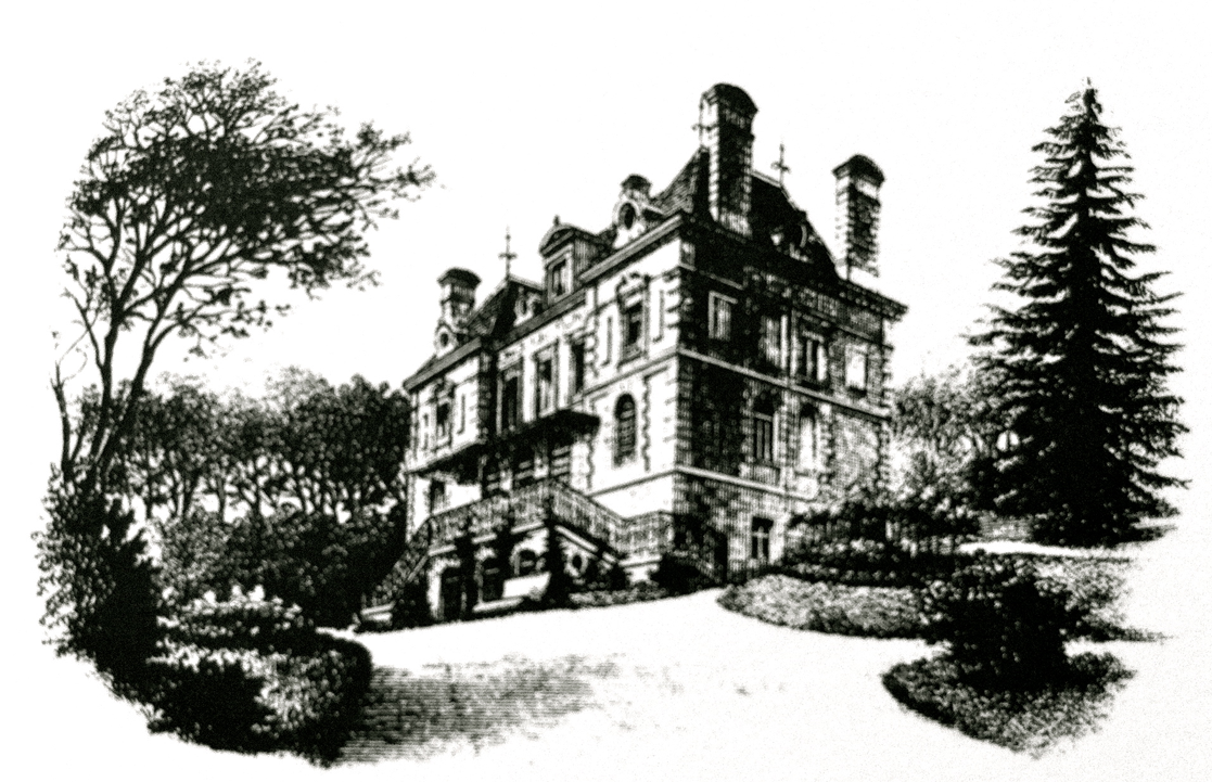 Castle of Montalais ( Château des Montalais ) in Meudon , France